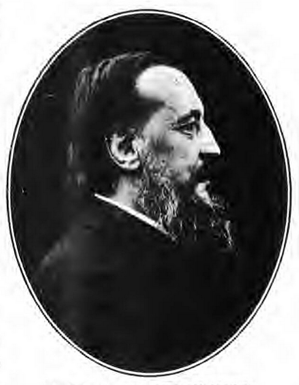 English writer Henry Jones who wrote under the pseudonym "Cavendish".